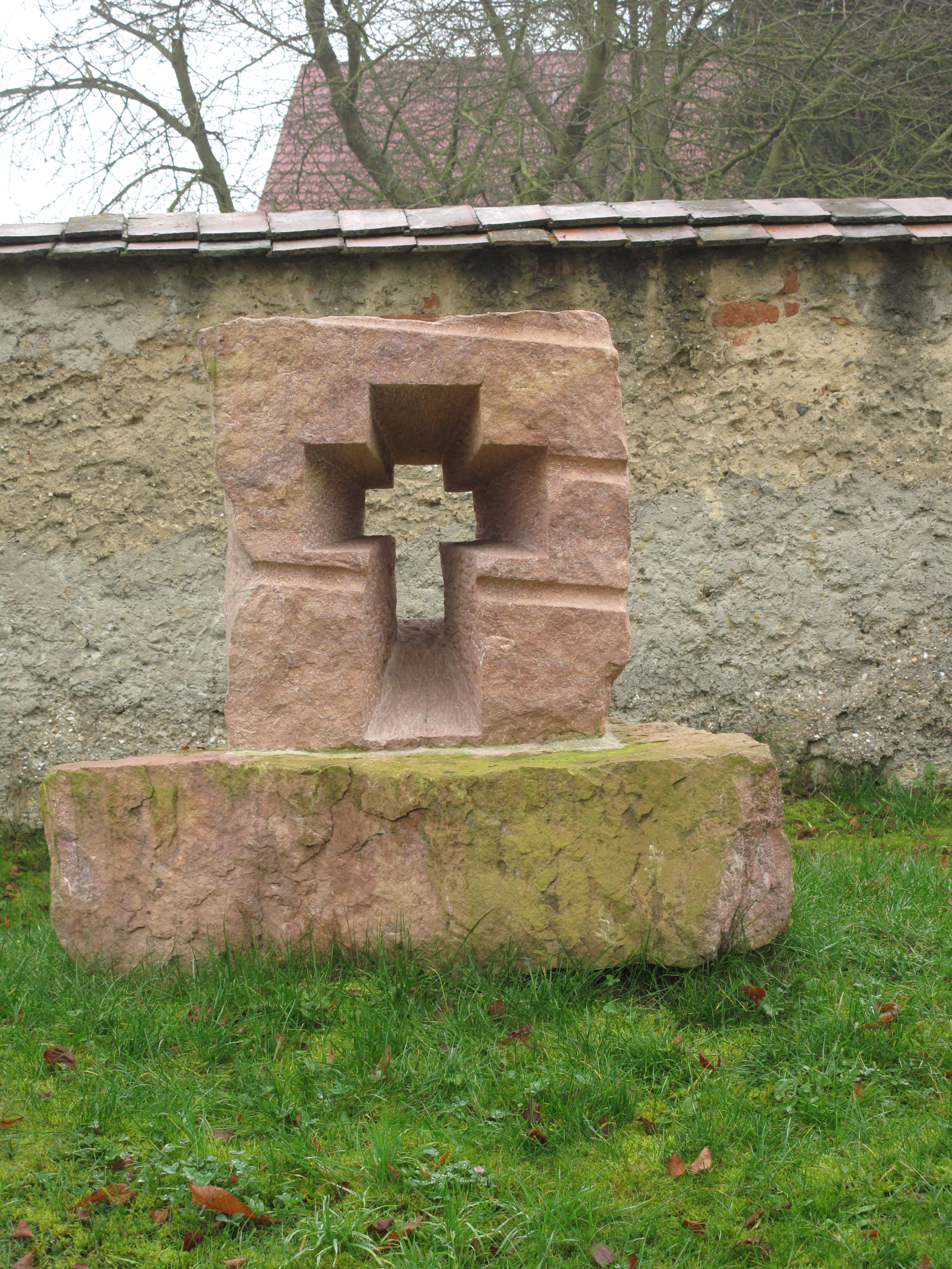 Jana Krausová: Průhled. 2010. Bělohrady sandstone (Javorka s.r.o. quarry), Vašírov village, Kladno District, Czech Republic. Created on the first sculpture symposium in Lány.